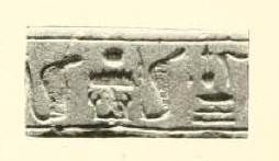 Seal dating to the 26th Dynasty and inscribed with "The Good God, the Lord of the Two Lands, Menkare". This could refer either to Menkare, second pharaoh of the 7th/8th Dynasty or to Menkaure (with an error on the seal), of the 4th Dynasty.